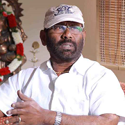 Depicted person: T. Surendra Reddy